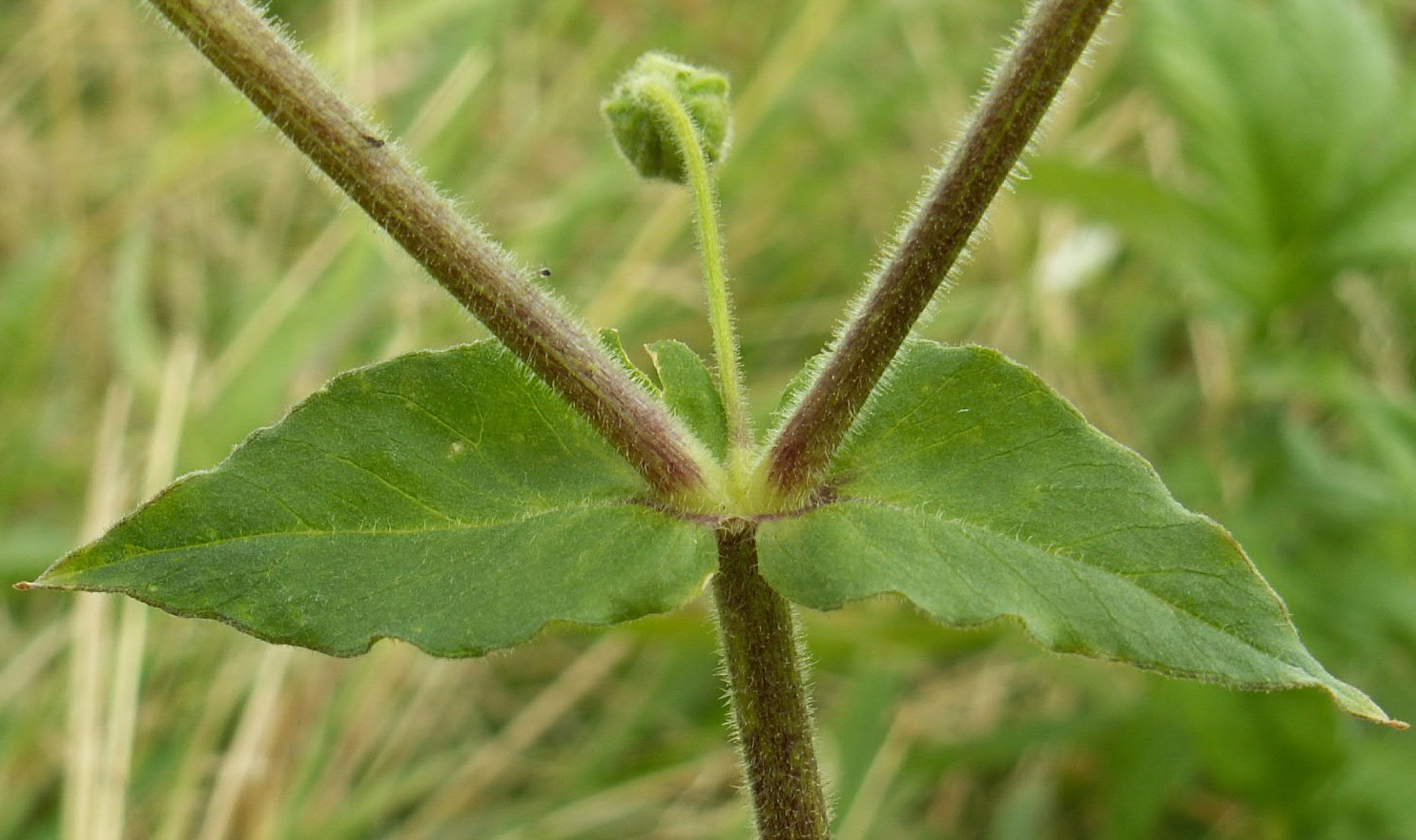 Myosoton aquaticum, leaves. Turze near Pyrzyce. NW Poland